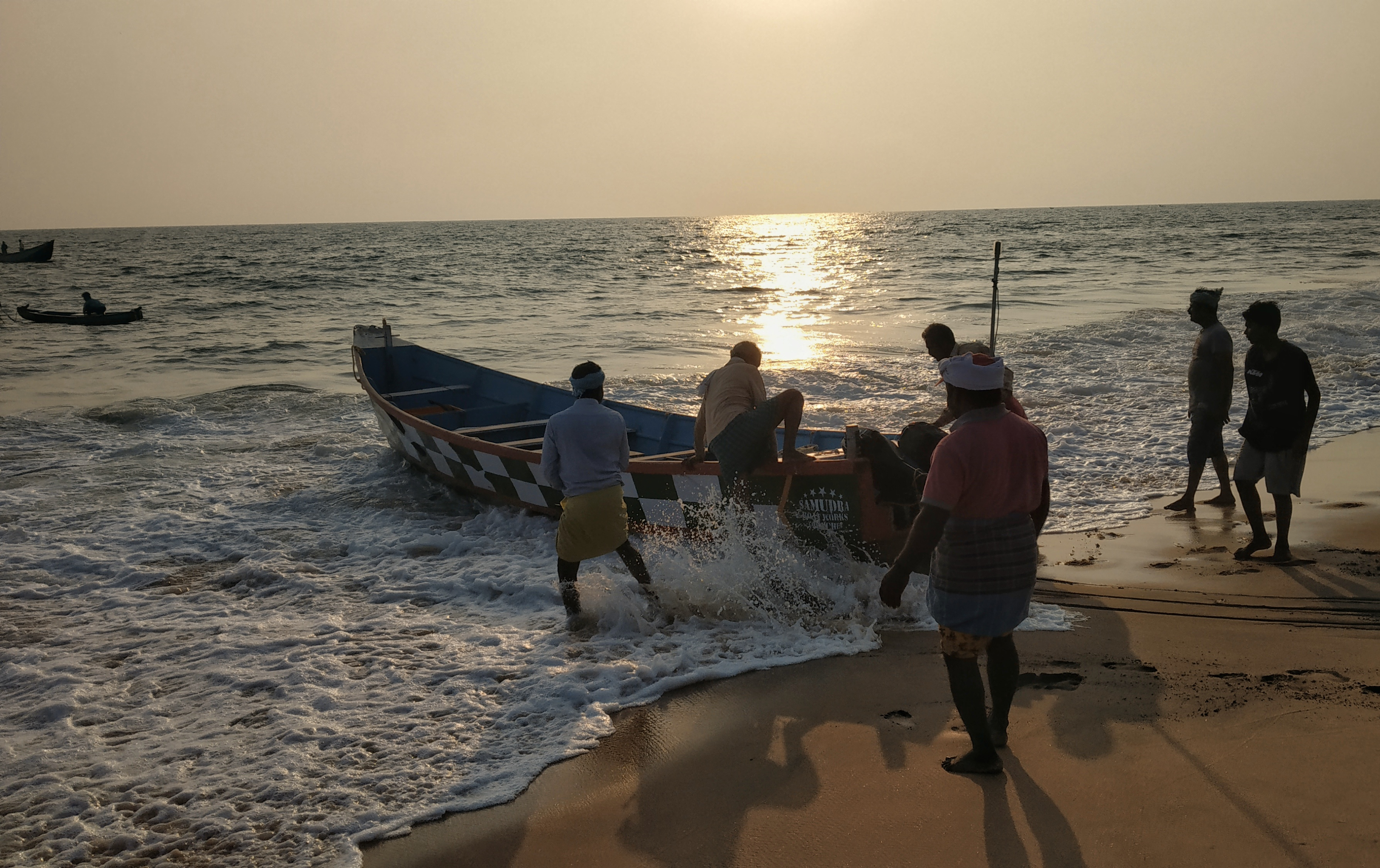 A view from Anchuthengu near fort